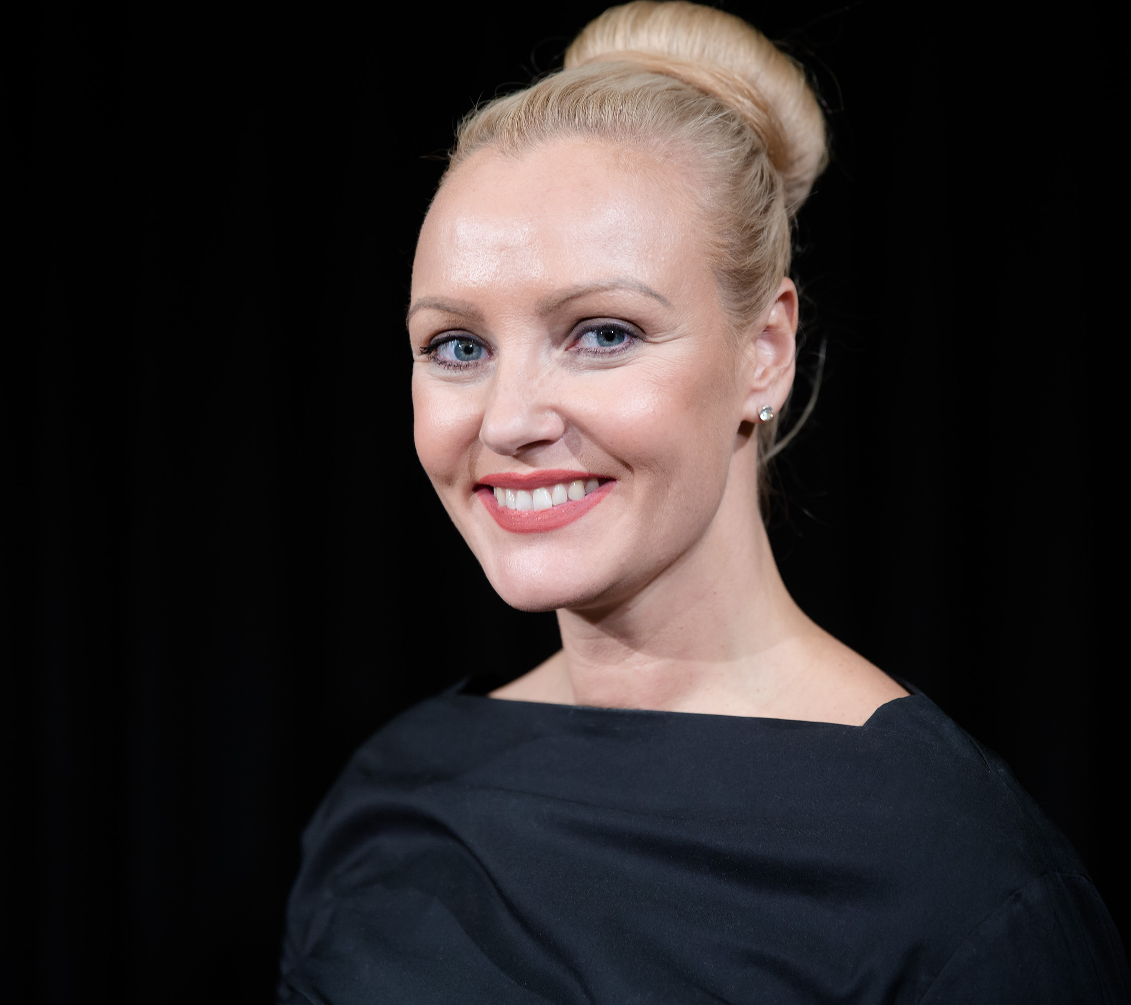 Verena Scheitz presenting the Austrian Cabaret Award 2015 at Urania in Vienna, Austria.